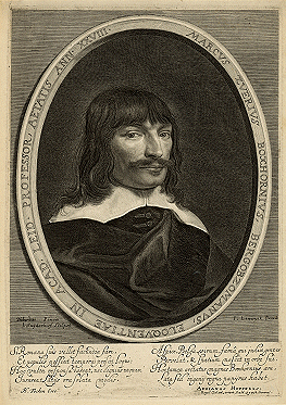 Dutch linguist Marcus Zuerius van Boxhorn.